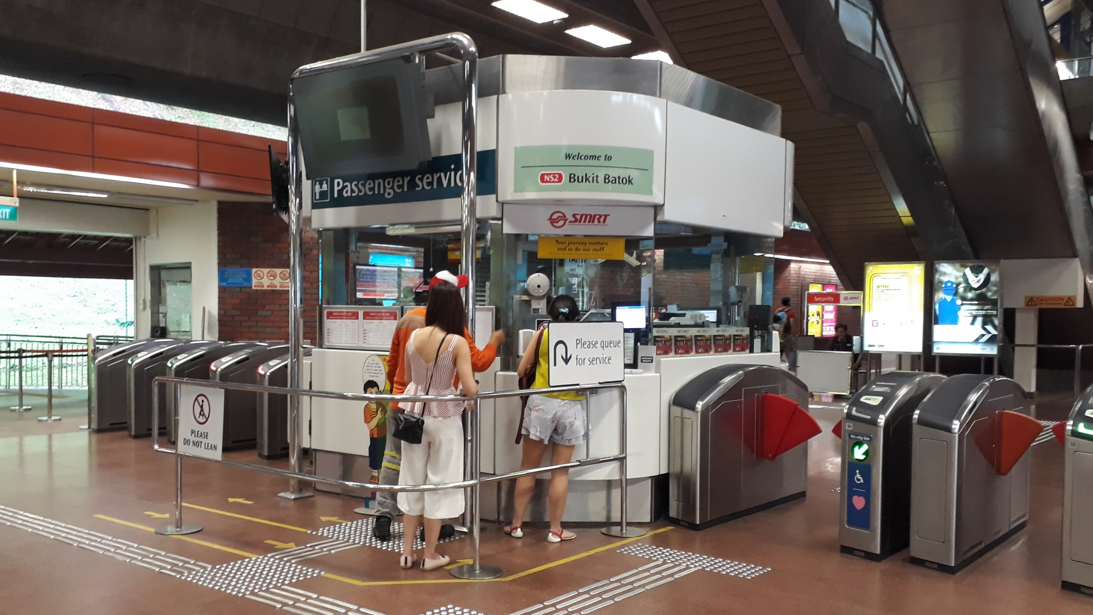 Bukit Batok